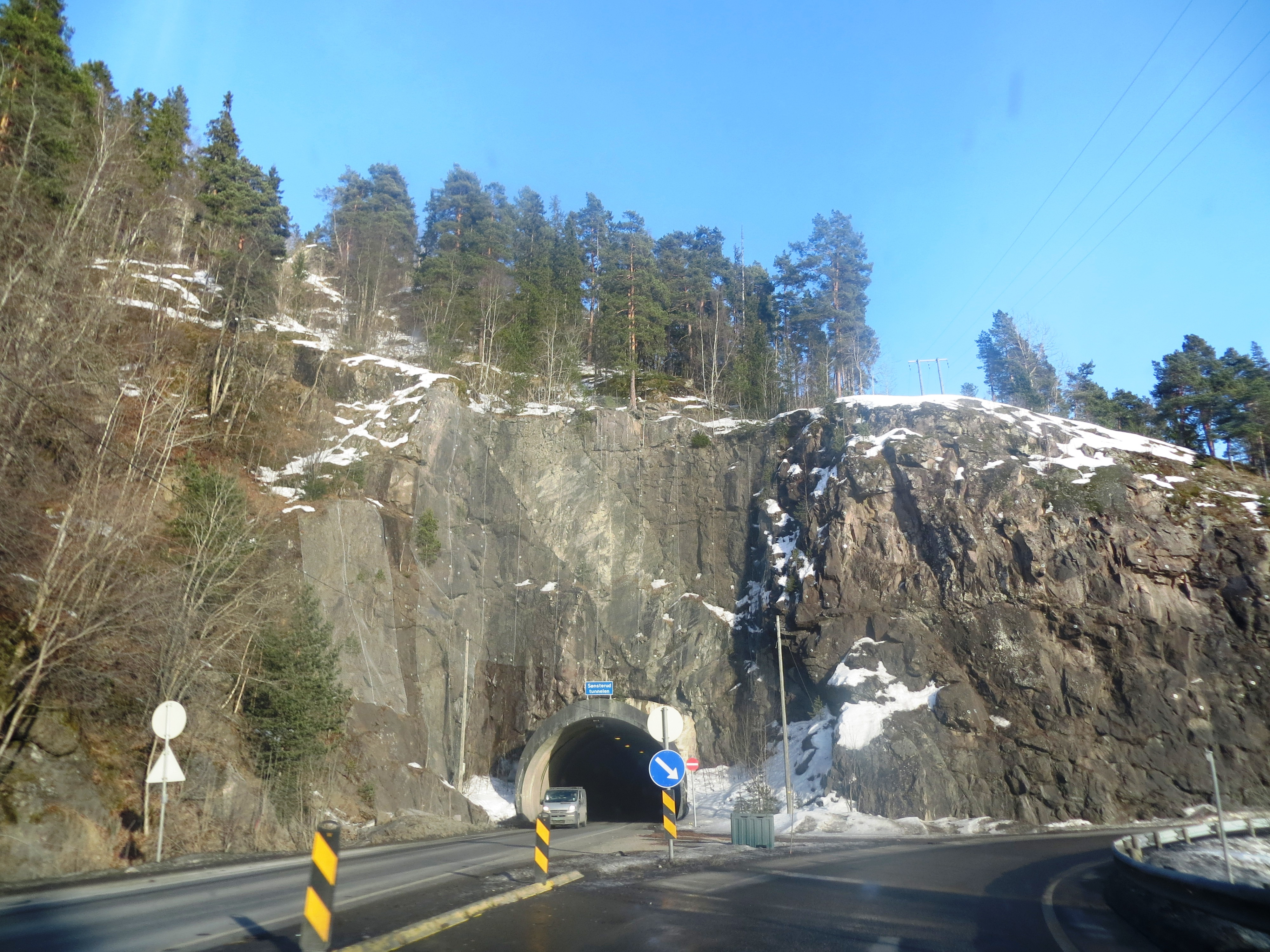 Geological roadside formation in the northern segment of the Tyrifjorden lake, southeastern Buskerud county, Norway. This western part of the Oslo Graben is a mixture of permian (or later) sediments, and outcroppings of older, partly cratonian masses.